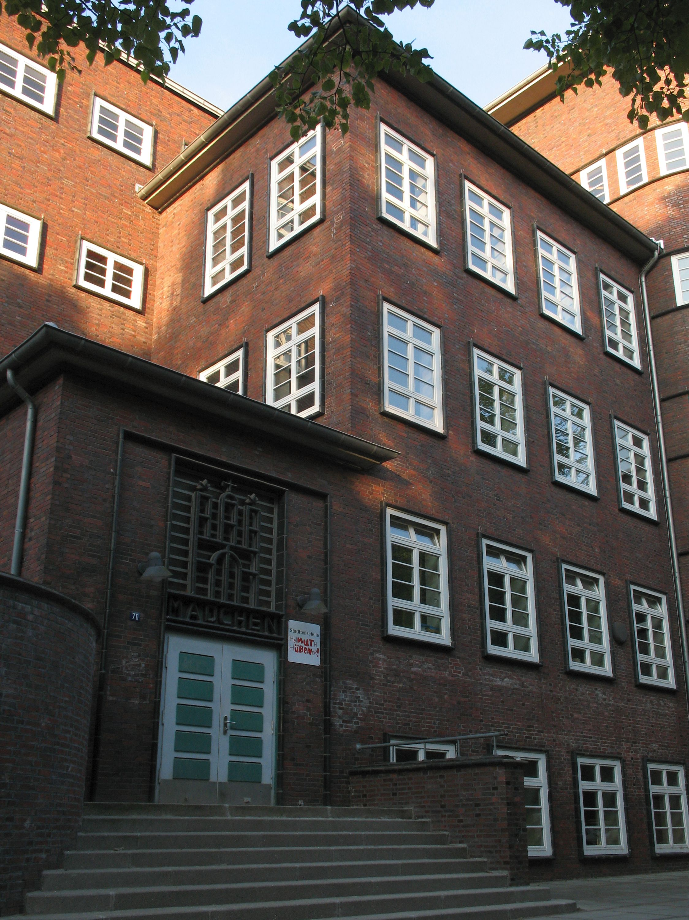 School building in Hamburg-Nord, Germany